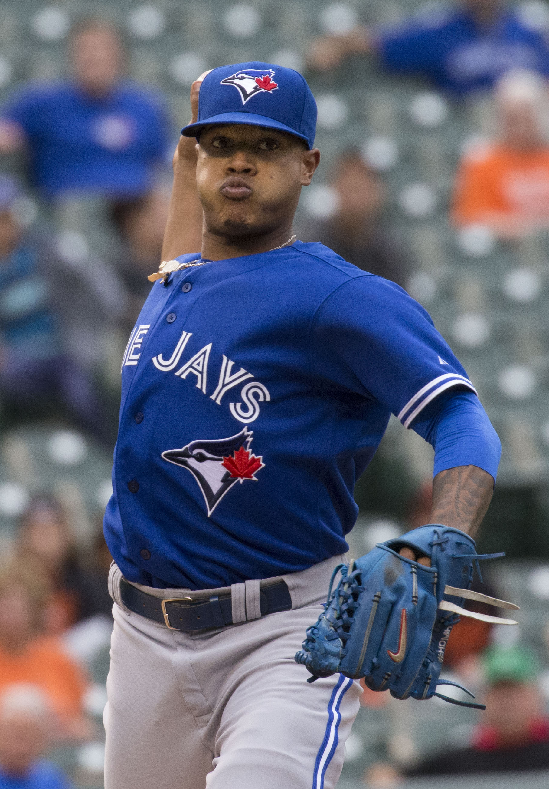 Marcus Stroman on September 30, 2015